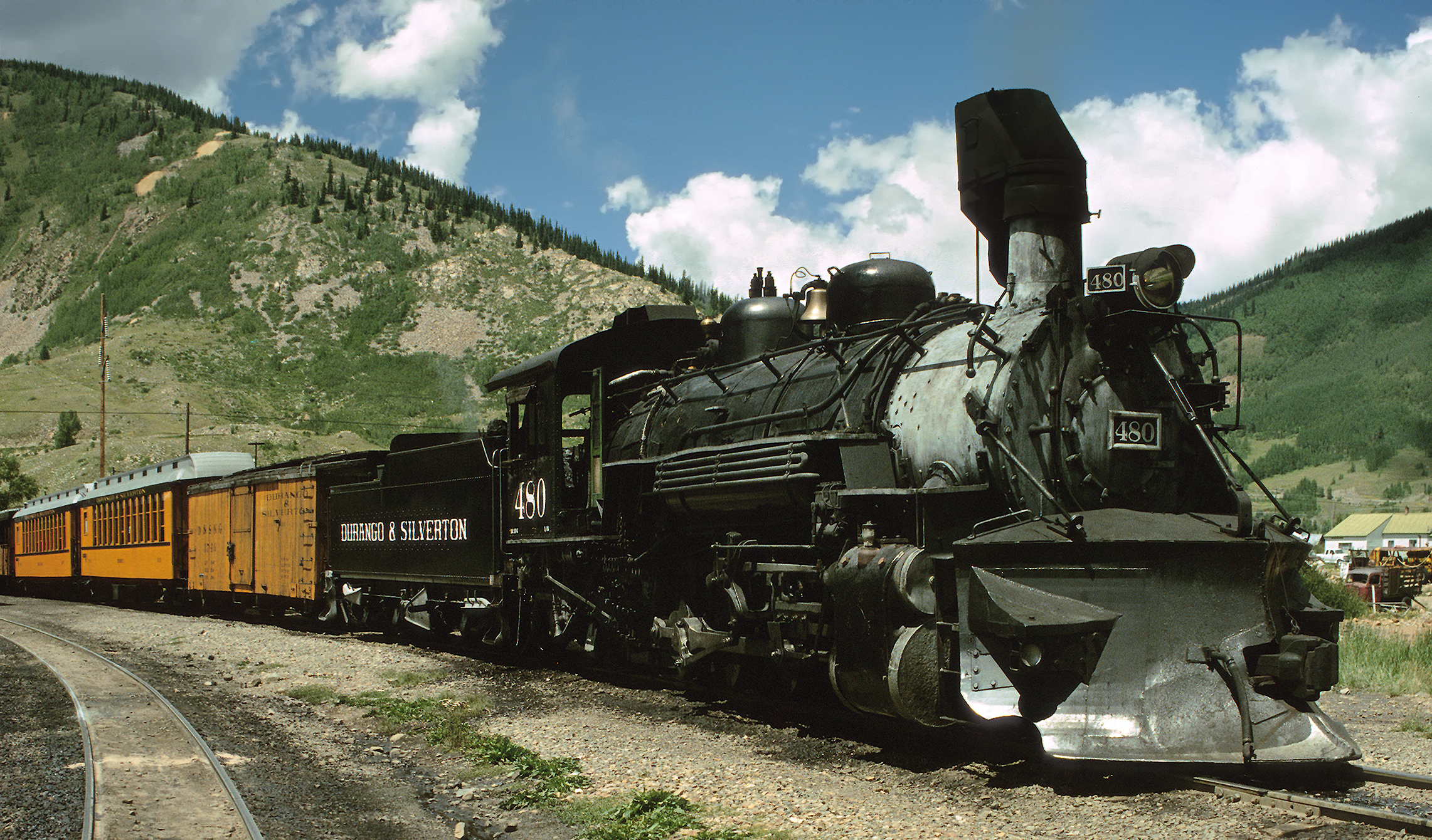 Train by the Durango and Silverton Narrow Gauge Railroad in the railroad station Silverton. The Denver and Rio Grande Western K-36 class Steam locomotive #480 was built for the Denver and Rio Grande Western Railroad (DRGW) by the Baldwin Locomotive Works in 1925. The Durango and Silverton Narrow Gauge Railroad (D&SNG) operates 45 miles (72 km) of 3 ft (914 mm) track between Durango and Silverton, in the US state of Colorado. The railway is a federally designated National Historic Landmark and is also designated by the American Society of Civil Engineers as a Historic Civil Engineering Landmark.